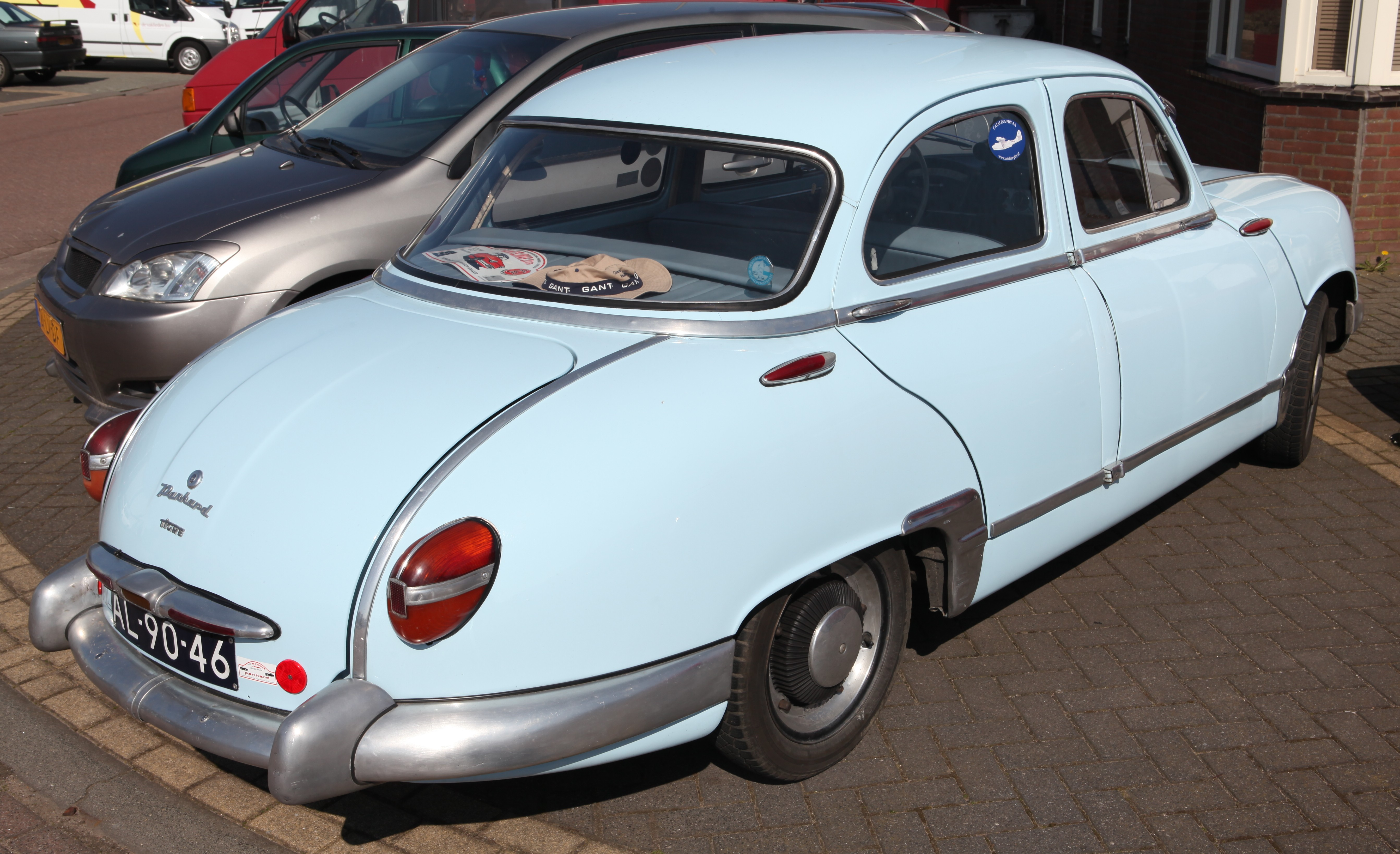 Panhard Dyna Z Tigre.